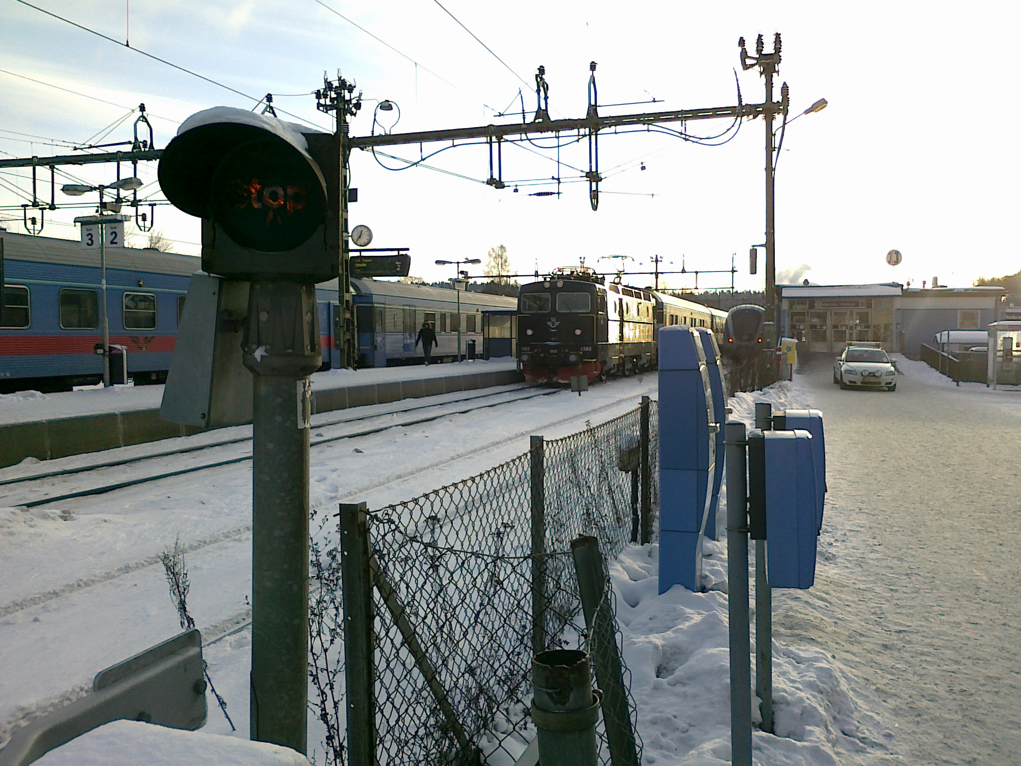 An swedish train on the way to Uppsala. The locomotin is a swedish Rc.